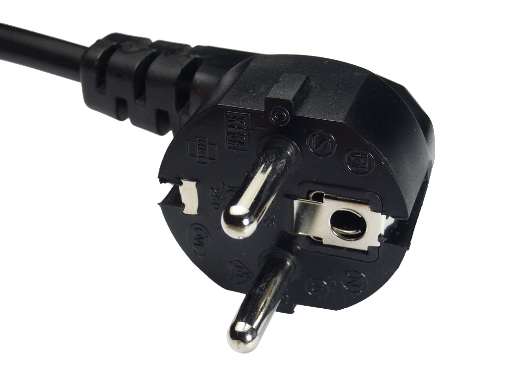 CEE 7/7 plug